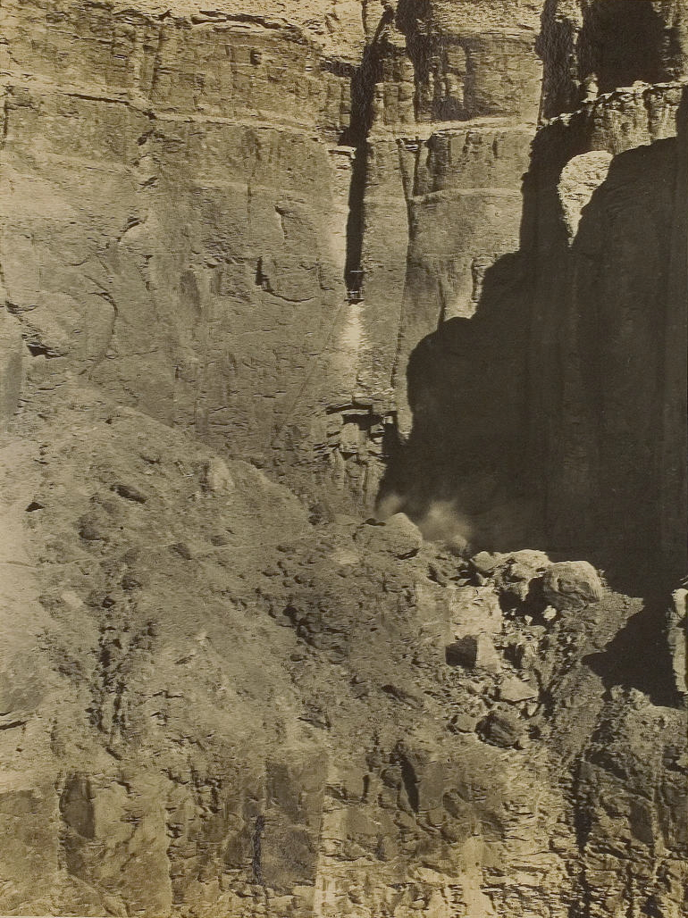 Harry Burton: Tutankhamun tomb photographs: a photographic record in 5 albums containing 490 original photographic prints ; representing the excavations of the tomb of Tutankhamun and its contents. Vol. 1